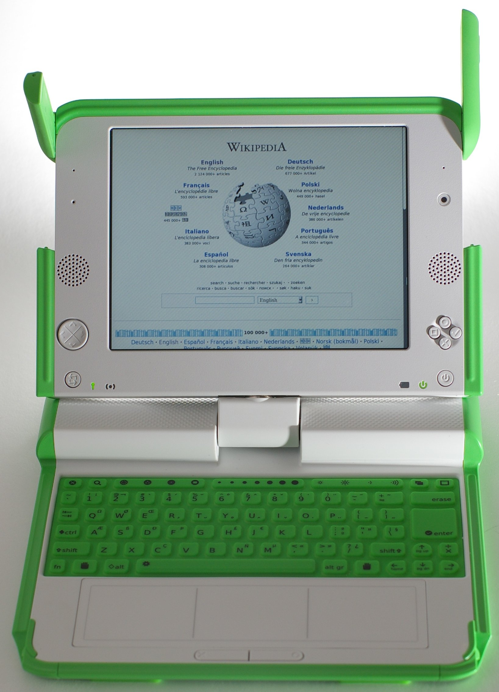 The XO-1 model laptop from the OLPC project